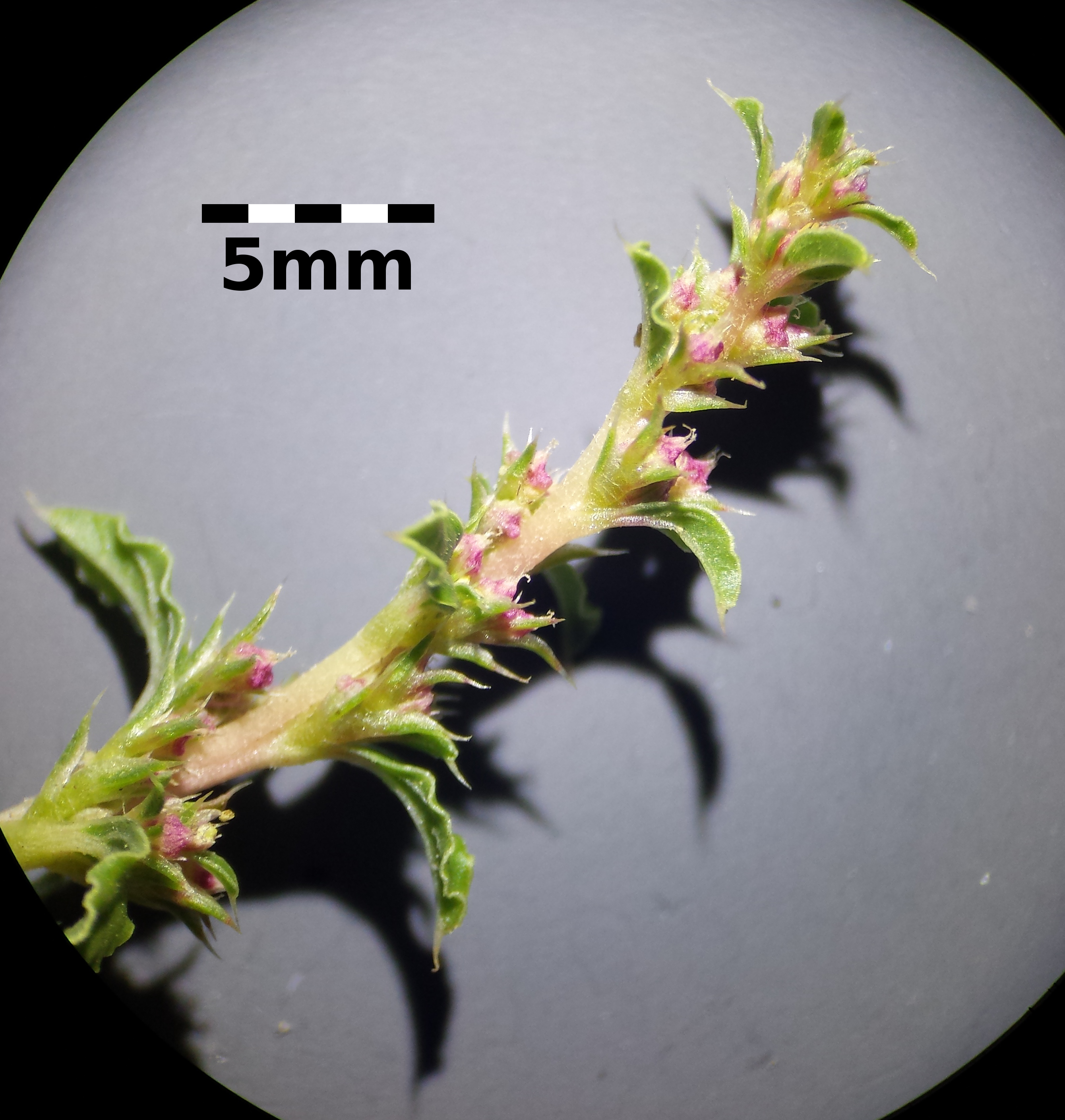 Florescence Taxon: Amaranthus albus (sensu Fischer et al. EfÖLS 2008 ISBN 978-3-85474-187-9) Location: Floridsdorf rail station, Vienna-Floridsdorf - ca. 160 m a.s.l. Habitat: ruderal area